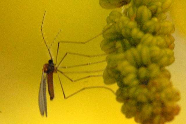 Macrocera pusilla from Commanster, Belgian High Ardennes .